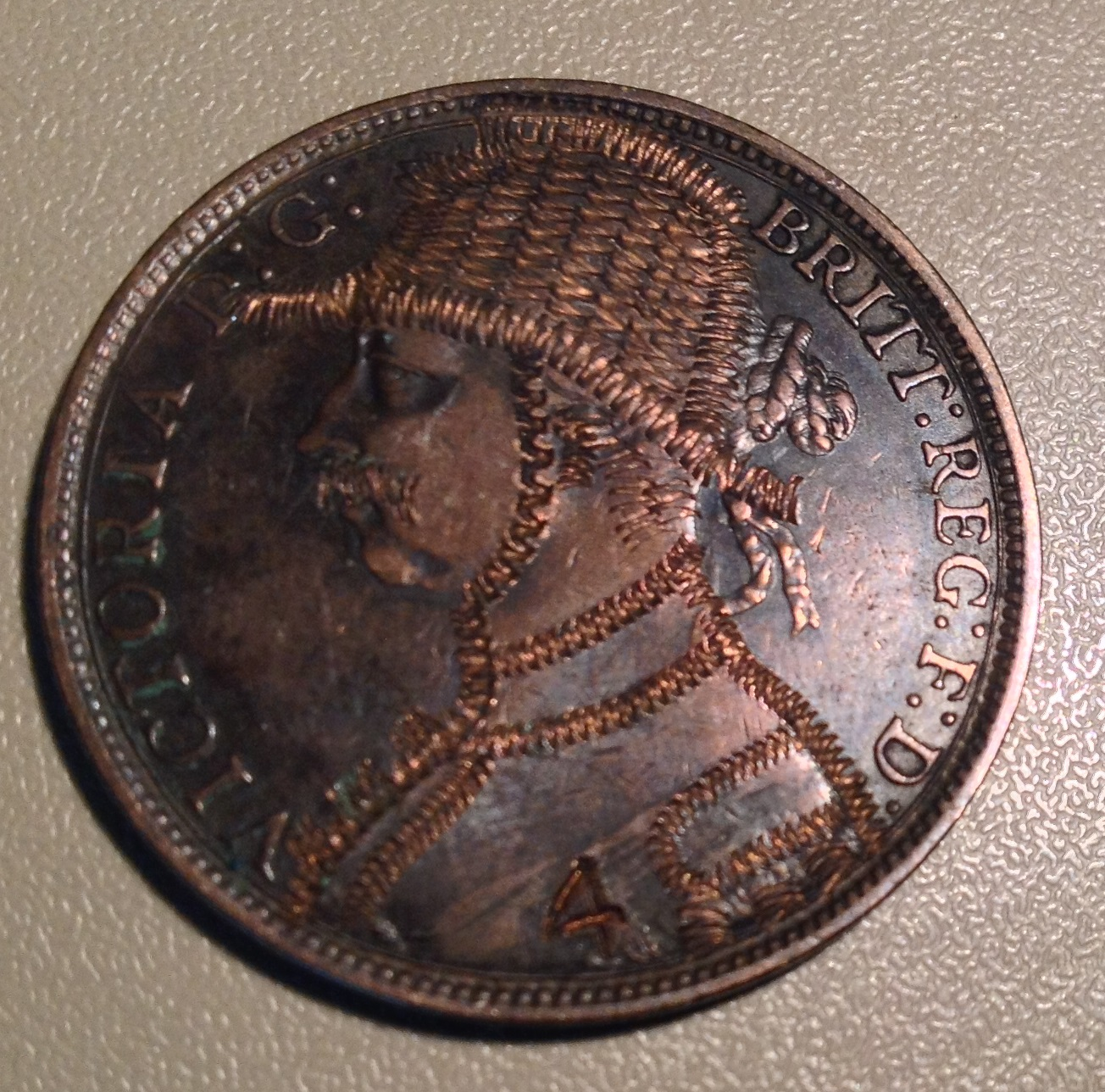 A British penny coin from 1891 in which the portrait of Victoria has been defaced in order to resemble an army general.